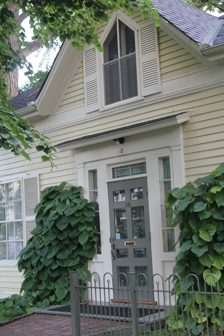 Canadian writer, Farley Mowat lives with his wife Claire in Port Hope, Ontario. This is their front door adorned with heart shaped vines.